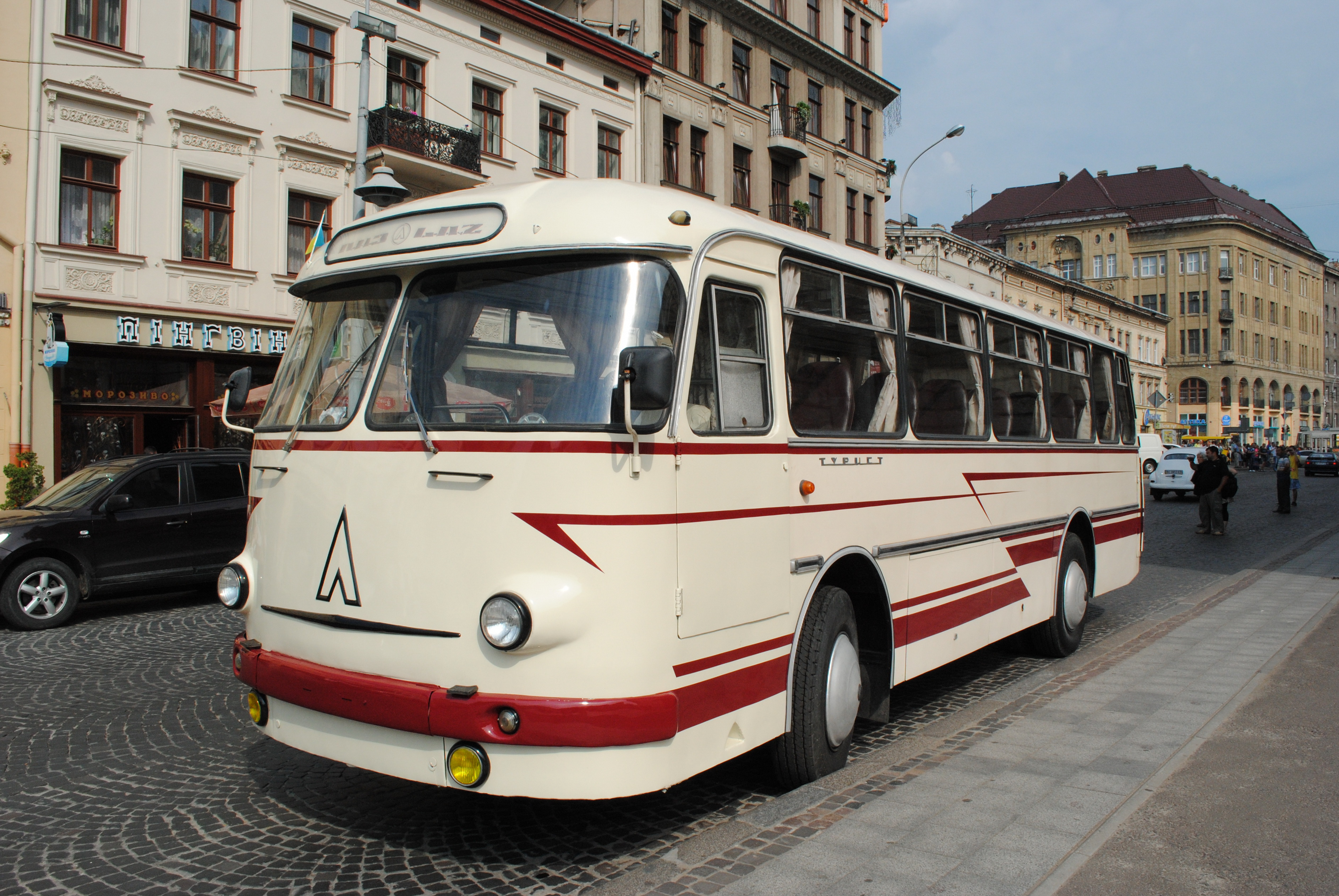 LAZ-697M bus on a Lviv Grand Prix Exgibition